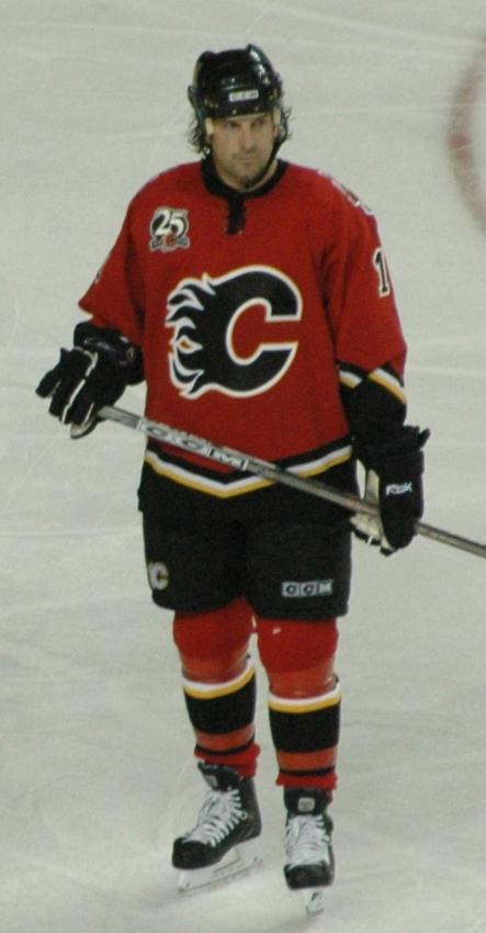 Tony Amonte of the Calgary Flames, December 21, 2005